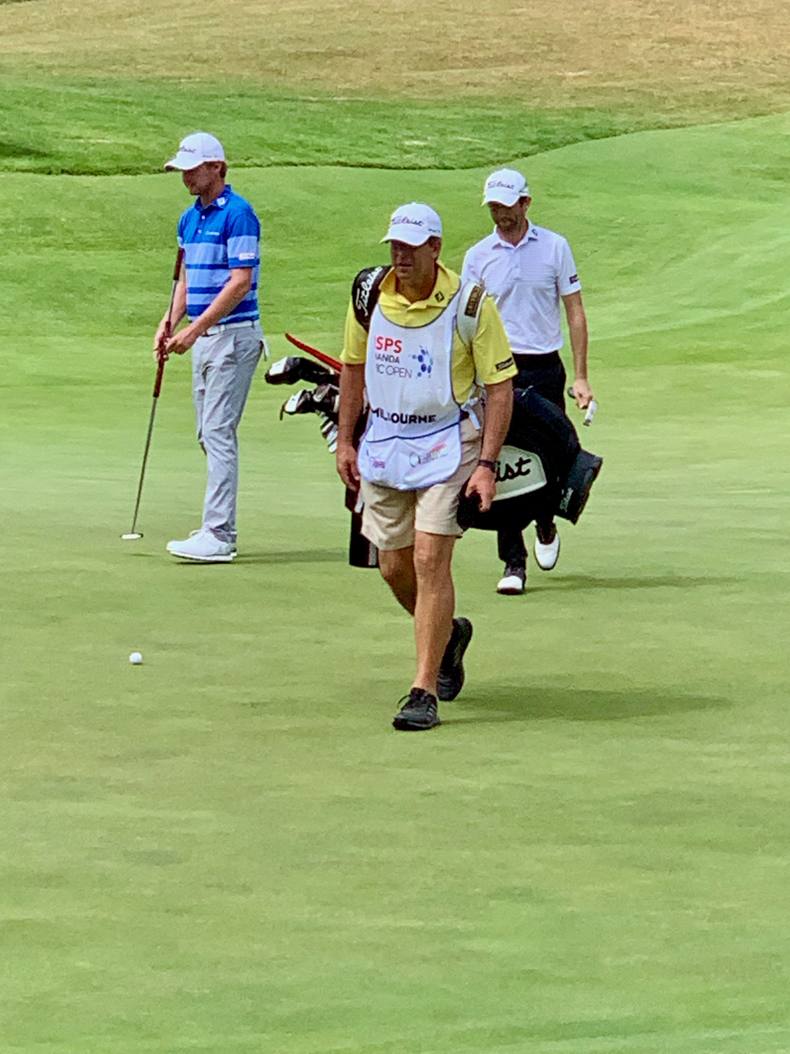 Professional golfer Justin Harding and caddie Alan burns at 13th Beach GC, Geelong, Victoria, Australia. This is a European Tour Golf Event